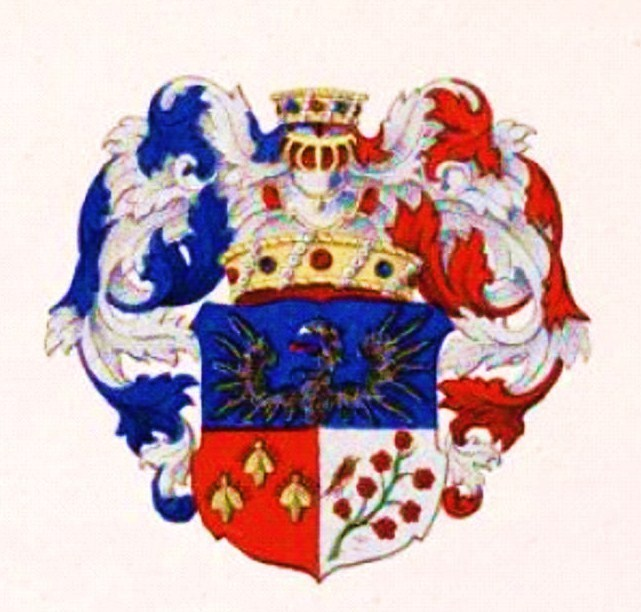 Coat pf arms of Baron_Stieglitz family